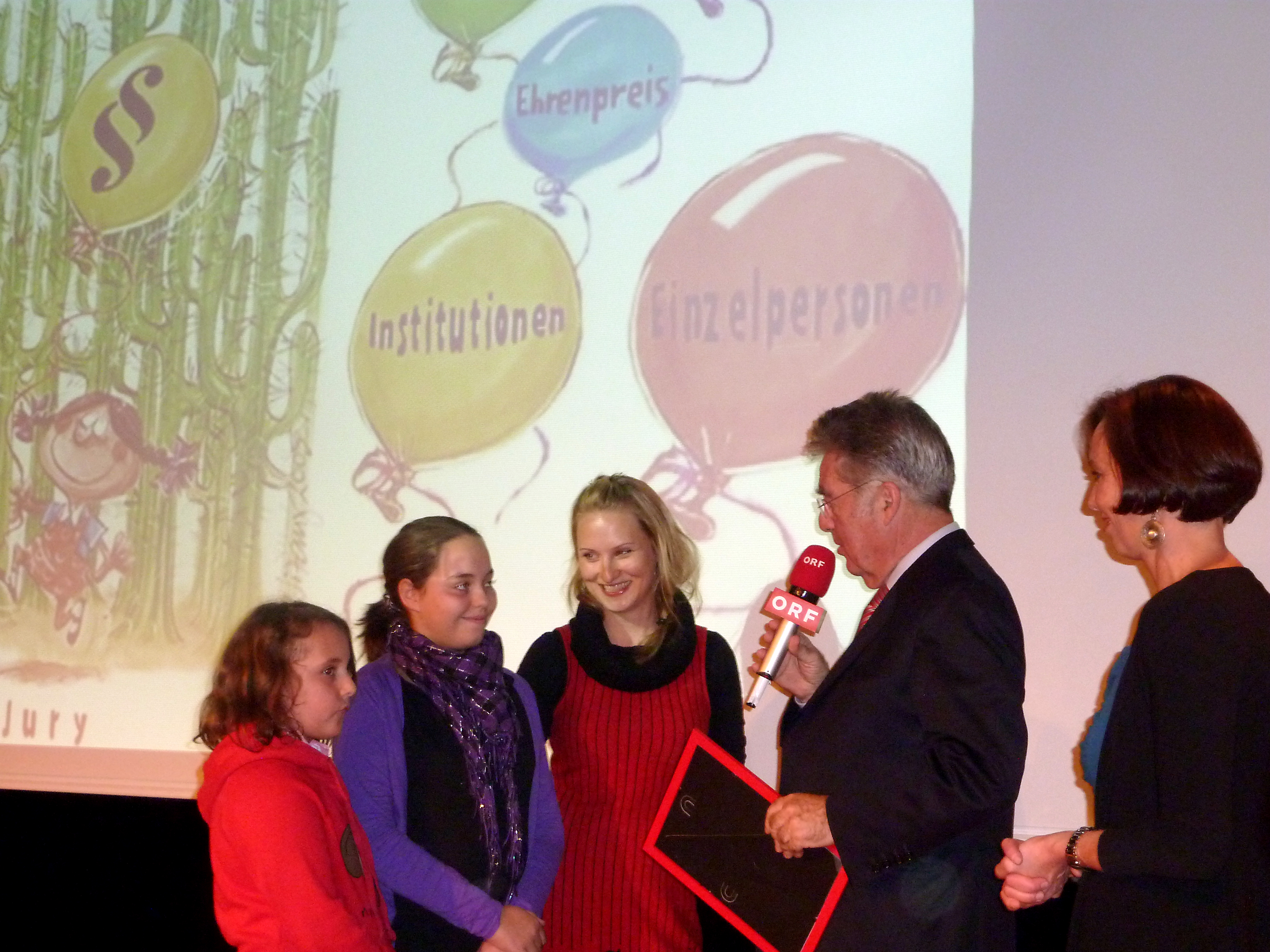 Children Rights Award 2011 for Radiofabrik - commissioned by Austrian State President Heinz Fischer.jpg